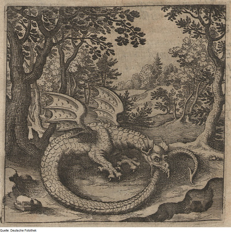 Original image description from the Deutsche Fotothek Theosophie & Alchemie